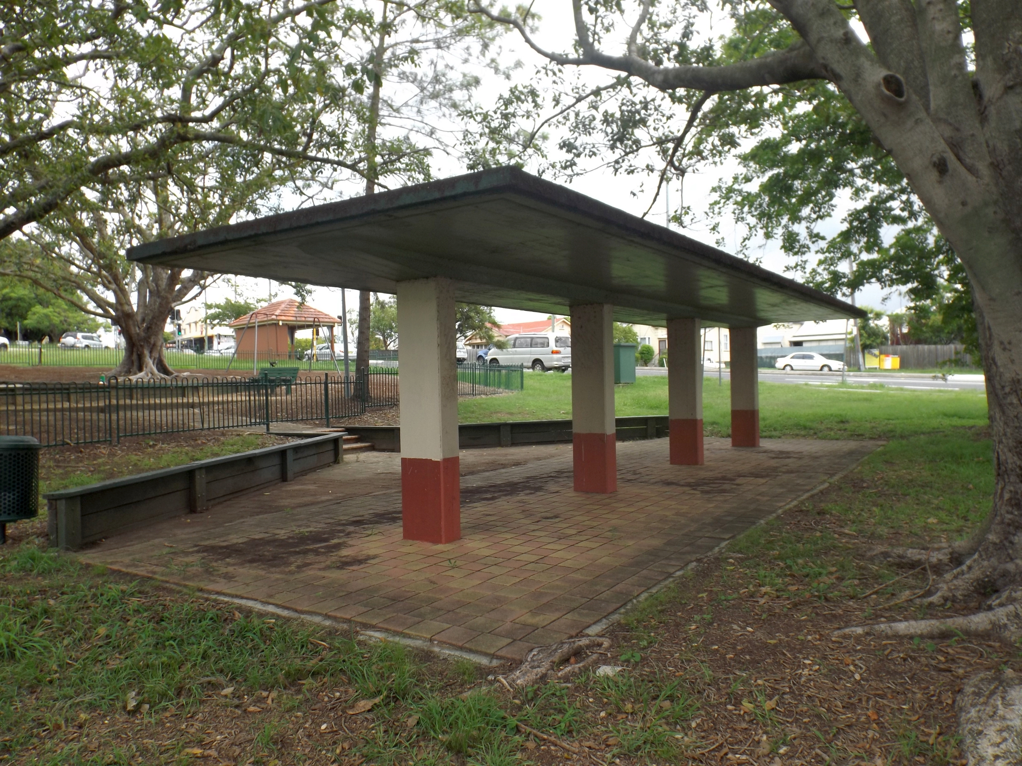 Photo of Hefferan Park Air Raid Shelter at Annerley, Brisbane, Queensland, Australia.